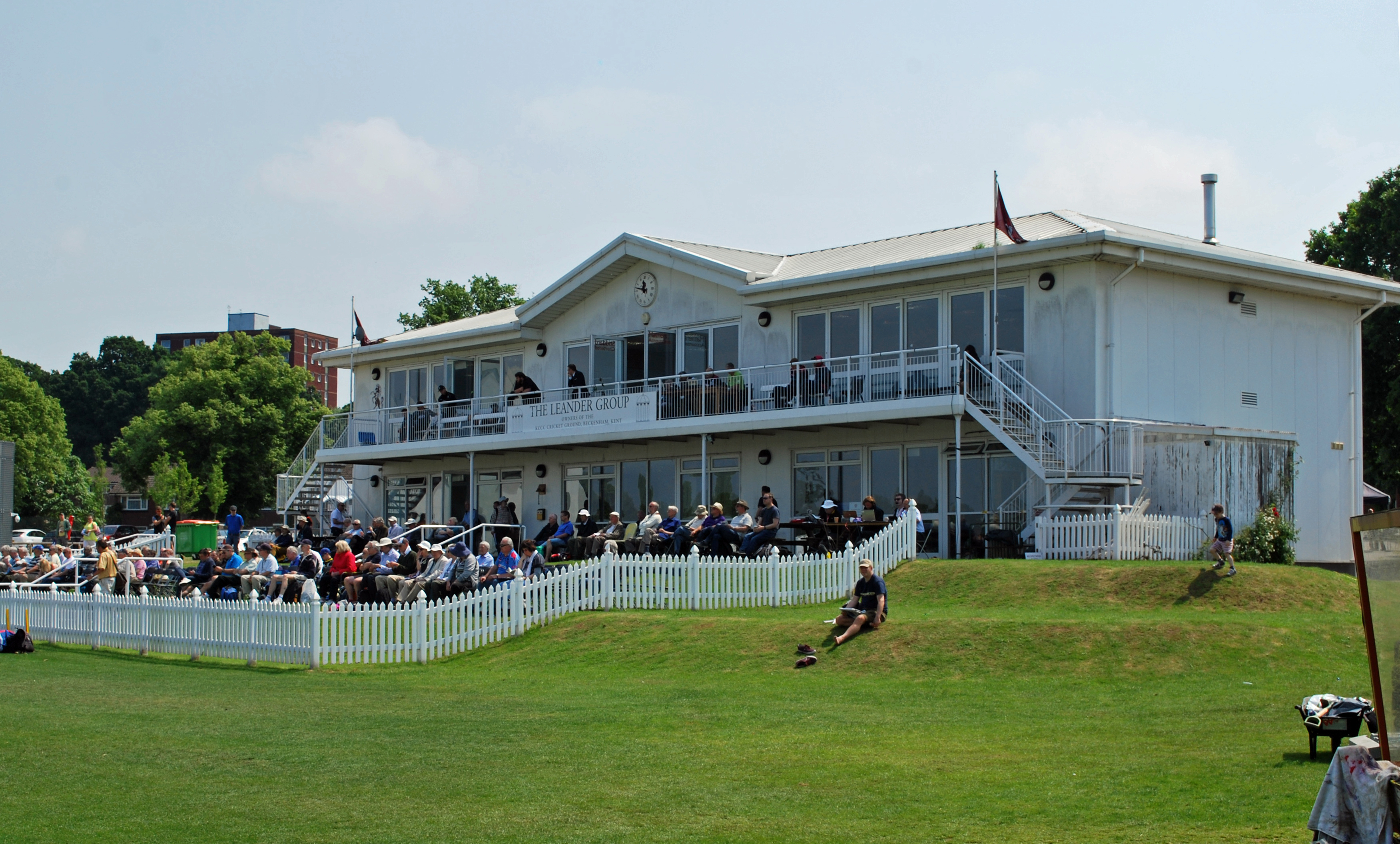 The pavilion at Kent County Cricket Ground, Beckenham - June 2016